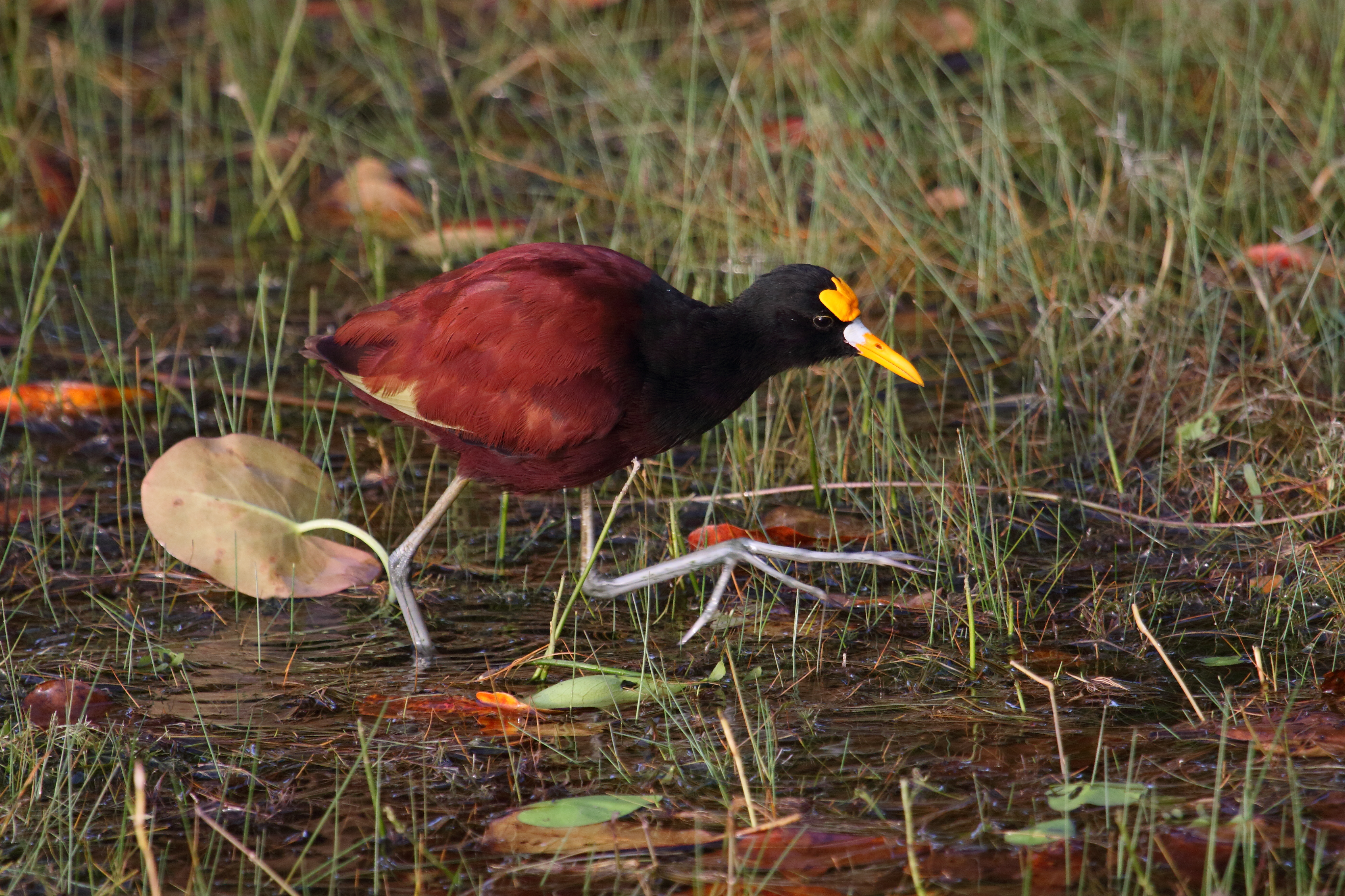 Northern jacana, Crooked Tree Wildlife Sanctuary, Belize.